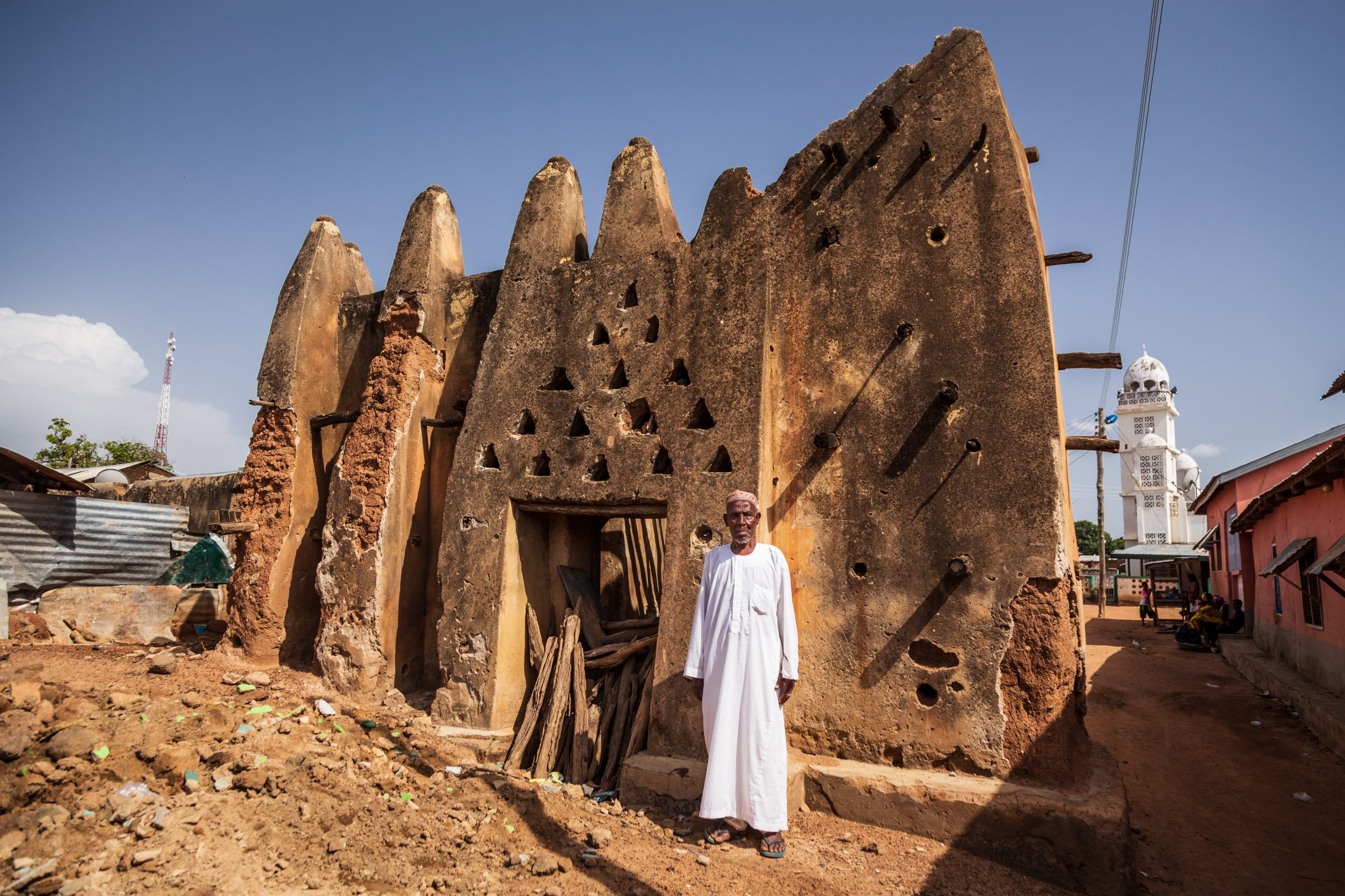 The man in front of the mosque claimed his great grandfather vuilt the wall.